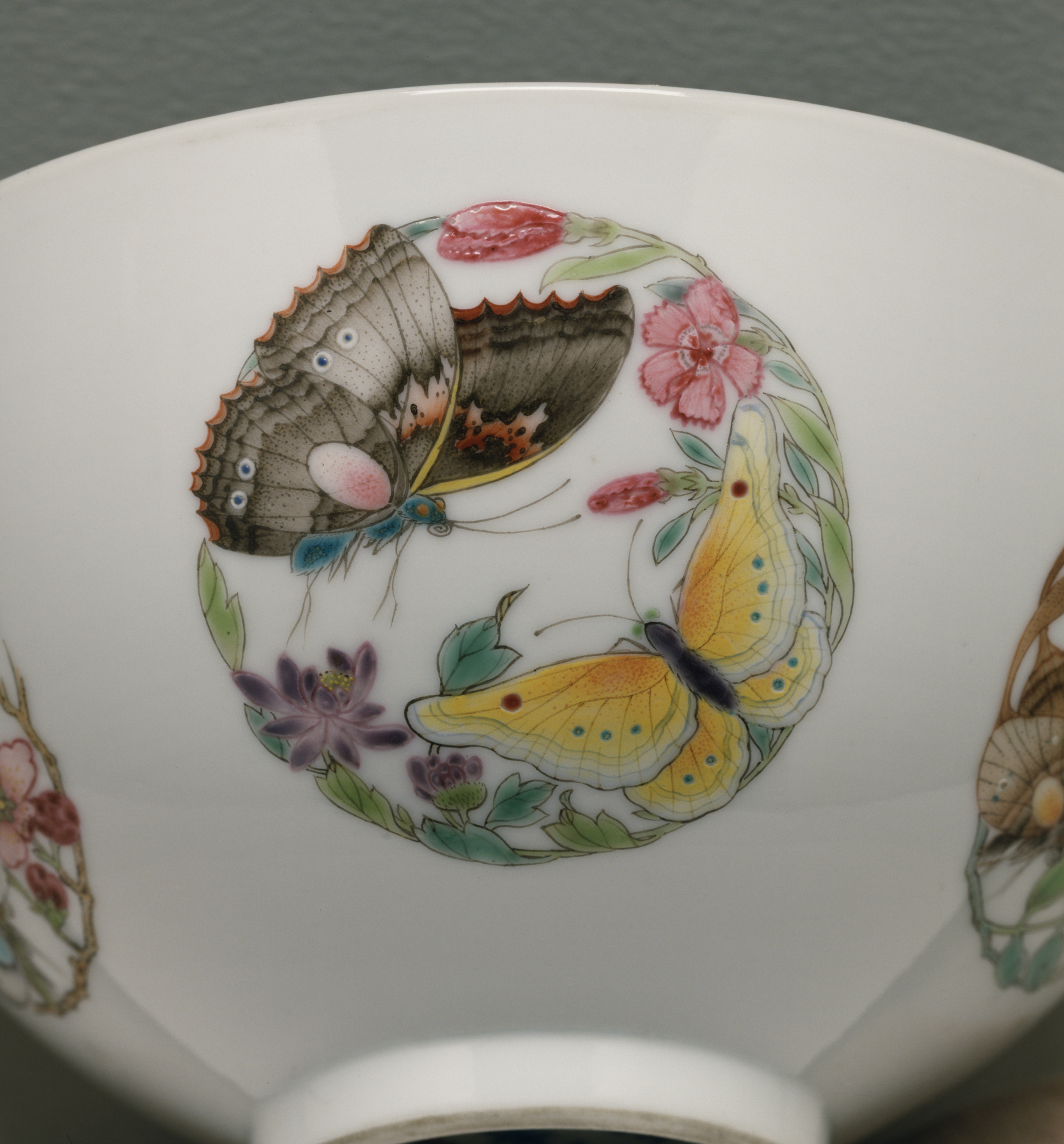 Flowers and butterflies located within medallions adorn the exterior of this "famille rose" bowl.